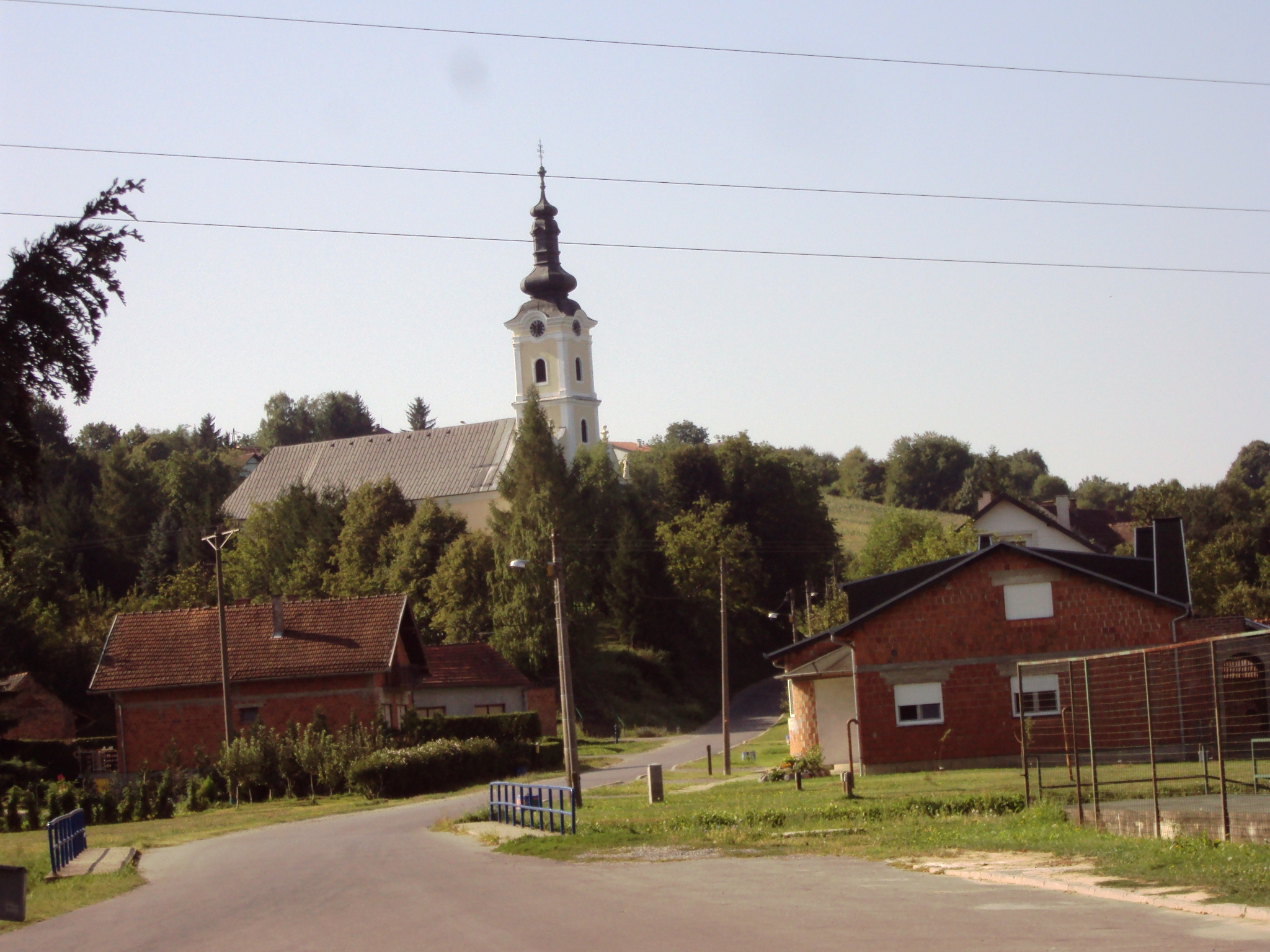 Village of Veliko Trojstvo near Bjelovar, Croatia